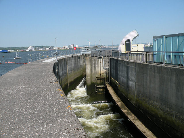 Fish Pass, Cardiff Bay barrage A way for salmon and trout to reach the Rivers Ely and Taff without having to queue for the lock gates to open.